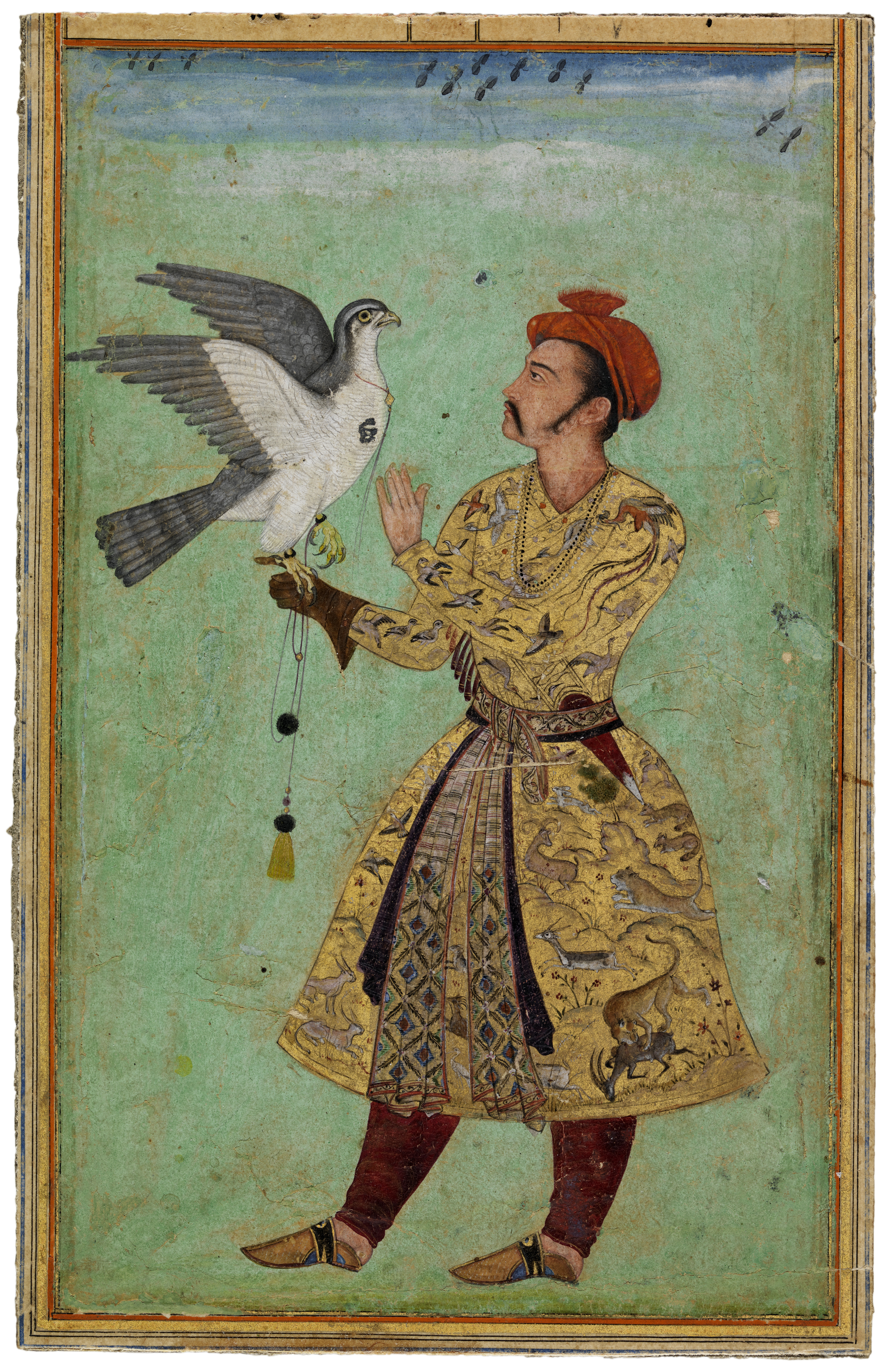 It was customary for the Mughal Miniature painters to make their colours from the indigenous materials. They extracted green from the green beetles. For getting yellow colour of some strength, they used the dried urine of cow.In the miniatures painted during the time of Mughal Empire and the Rajput kings have generally depicted the life style of the kings and the prices. The Mughal Miniature painters chose their subjects involving the courts and the kings. This painting, too, shows how a prince is involved in playing with his pet, the falcon.